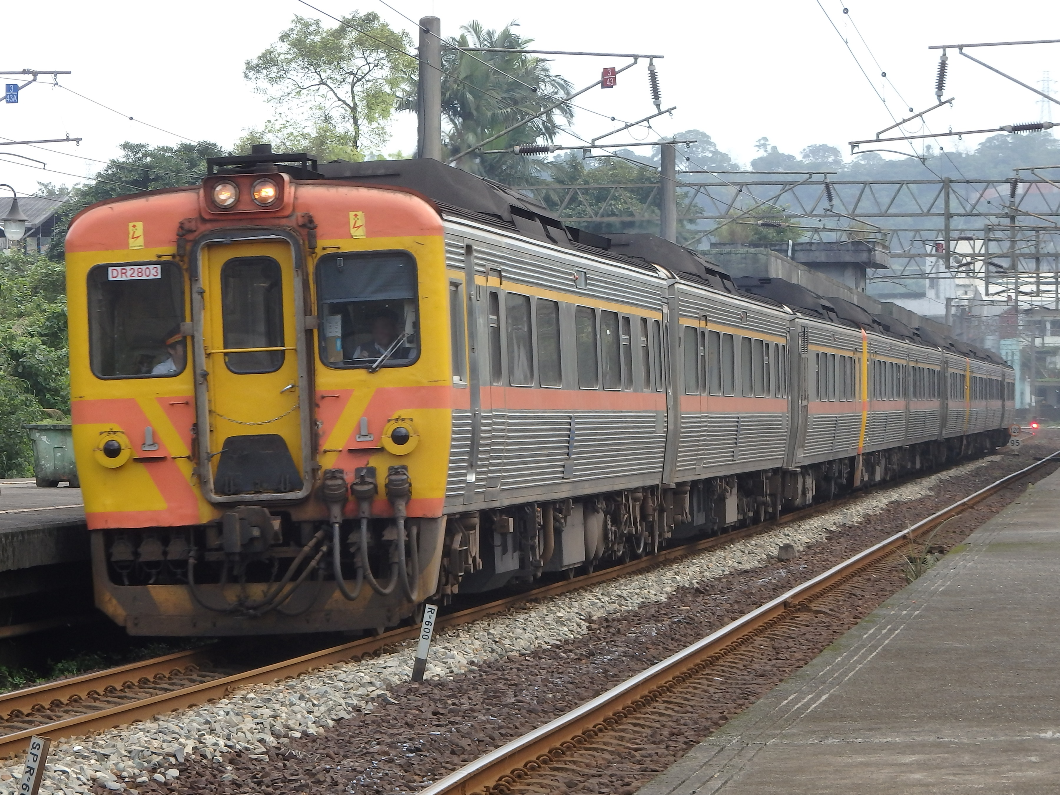 TRA Tze-Chiang Ltd-Exp Type DMU DR2800 at Yilan Line Sijiaoting Station